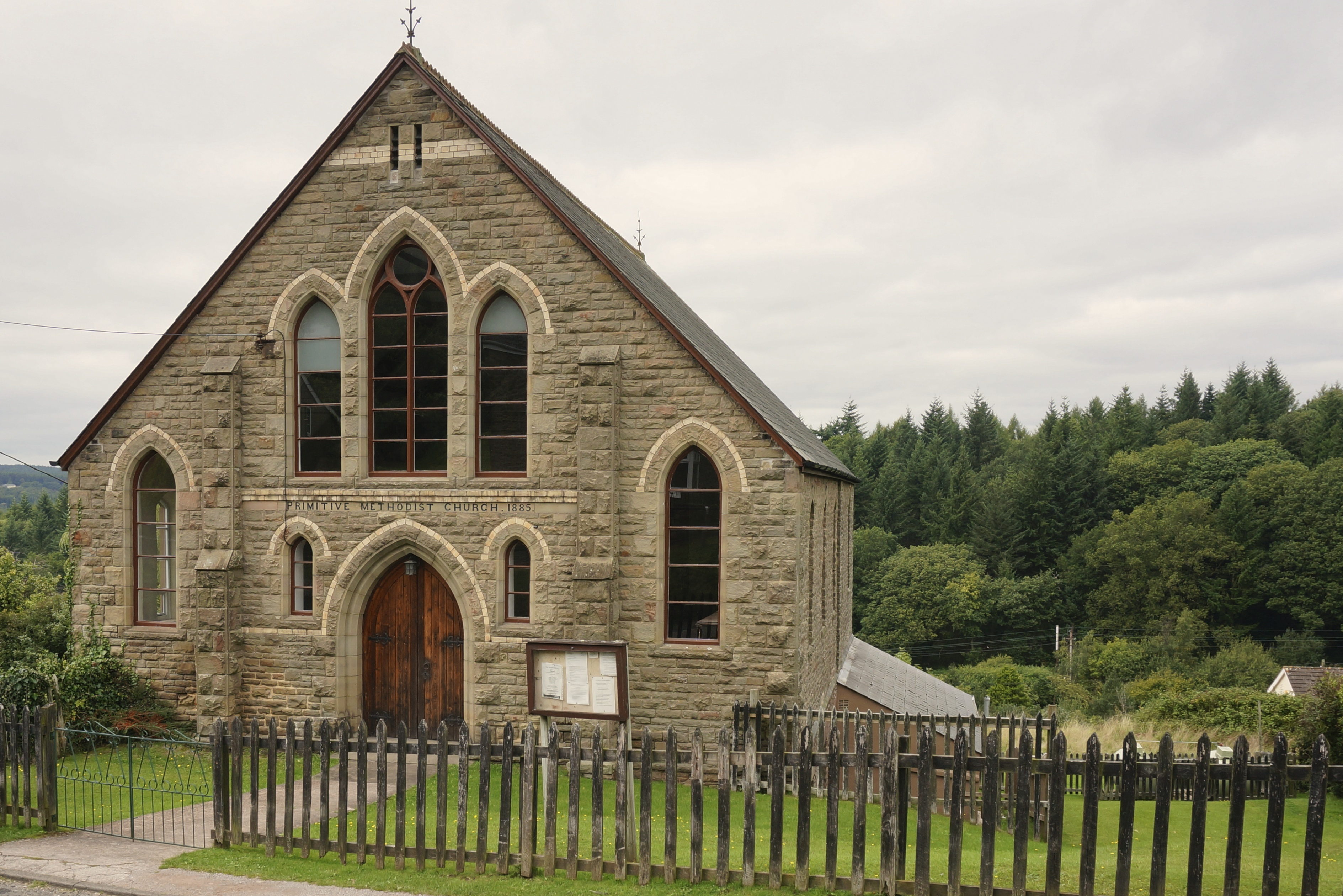 Methodist Chapel, Upper Road, Pillowell, Gloucestershire, seen from the southeast